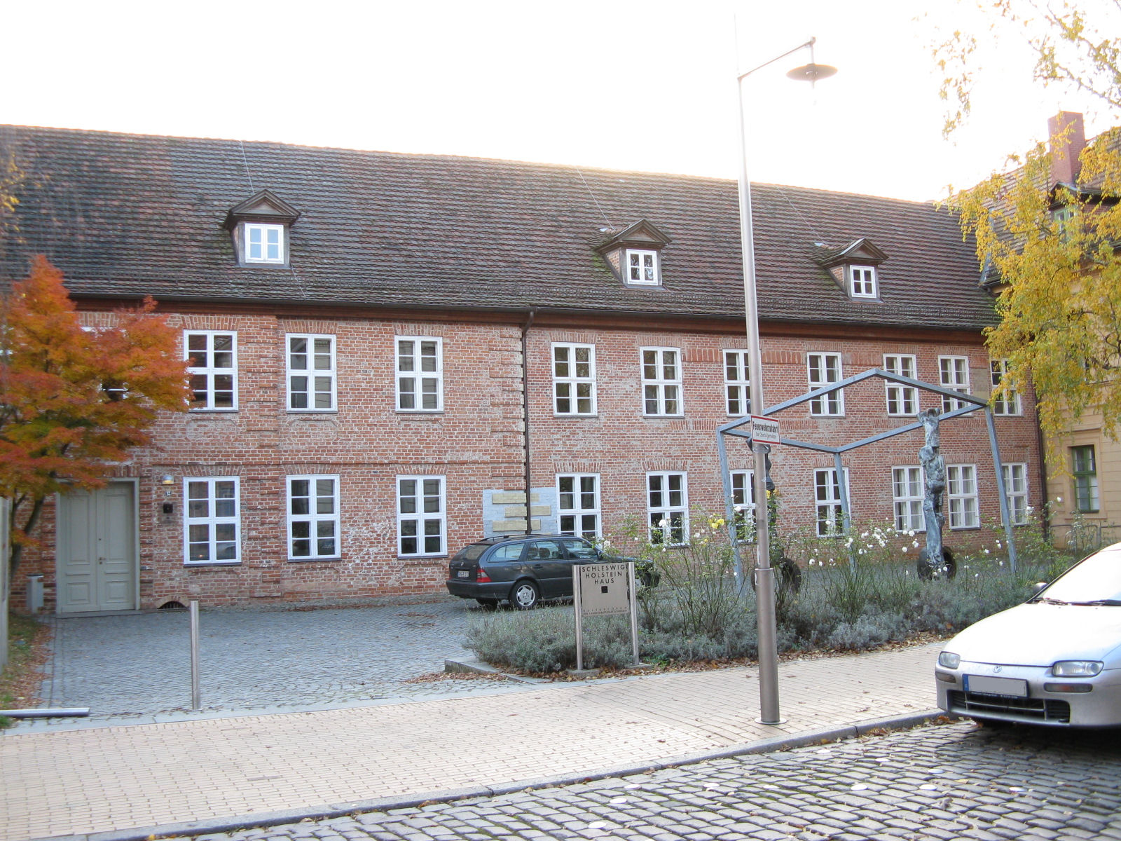 Schleswig-Holstein-Haus in the Puschkinstraße in Schwerin, Mecklenburg-Vorpommern, Germany